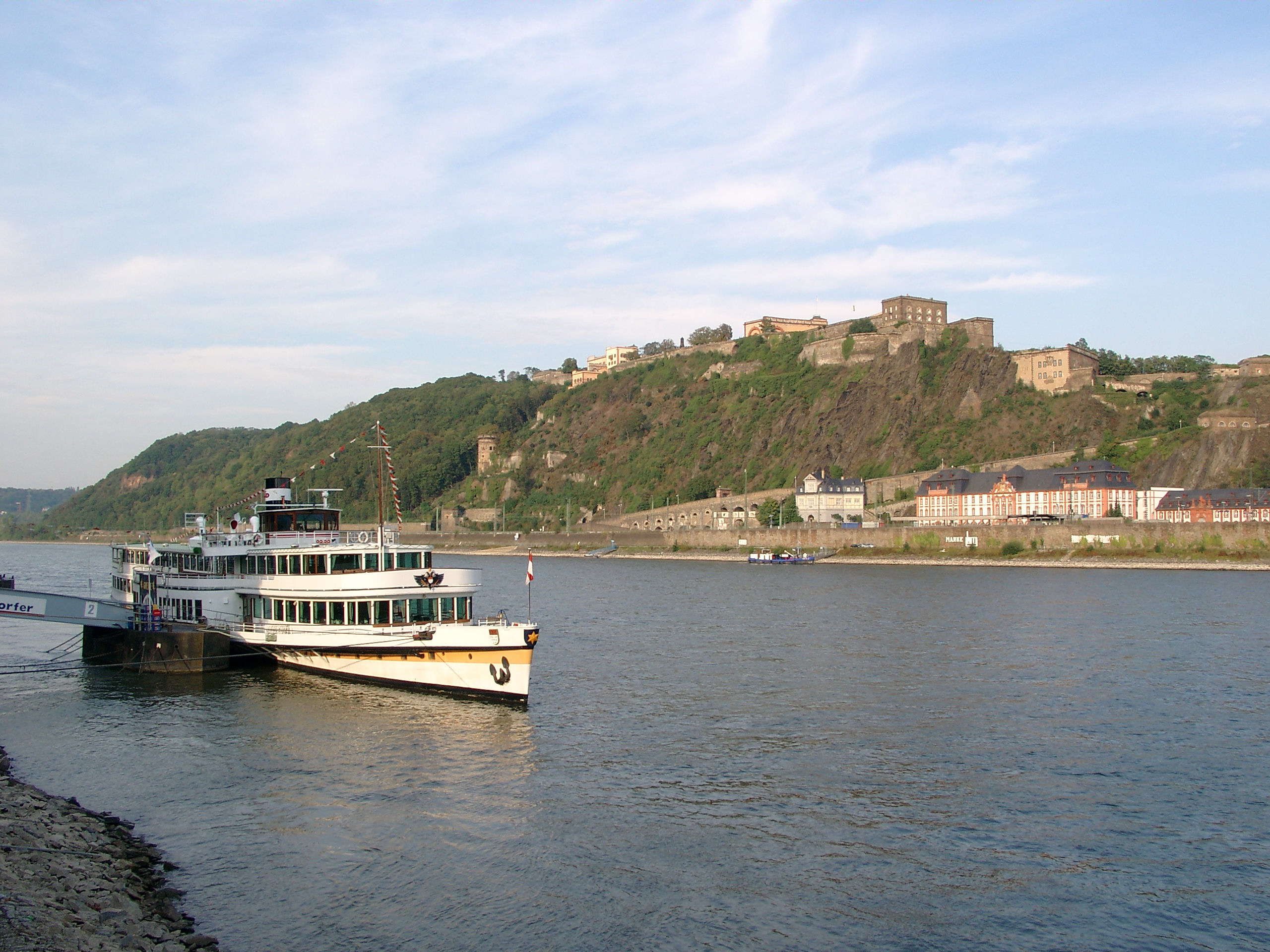 Paddle steamer Goethe next to the Festung Ehrenbreitstein in Koblenz